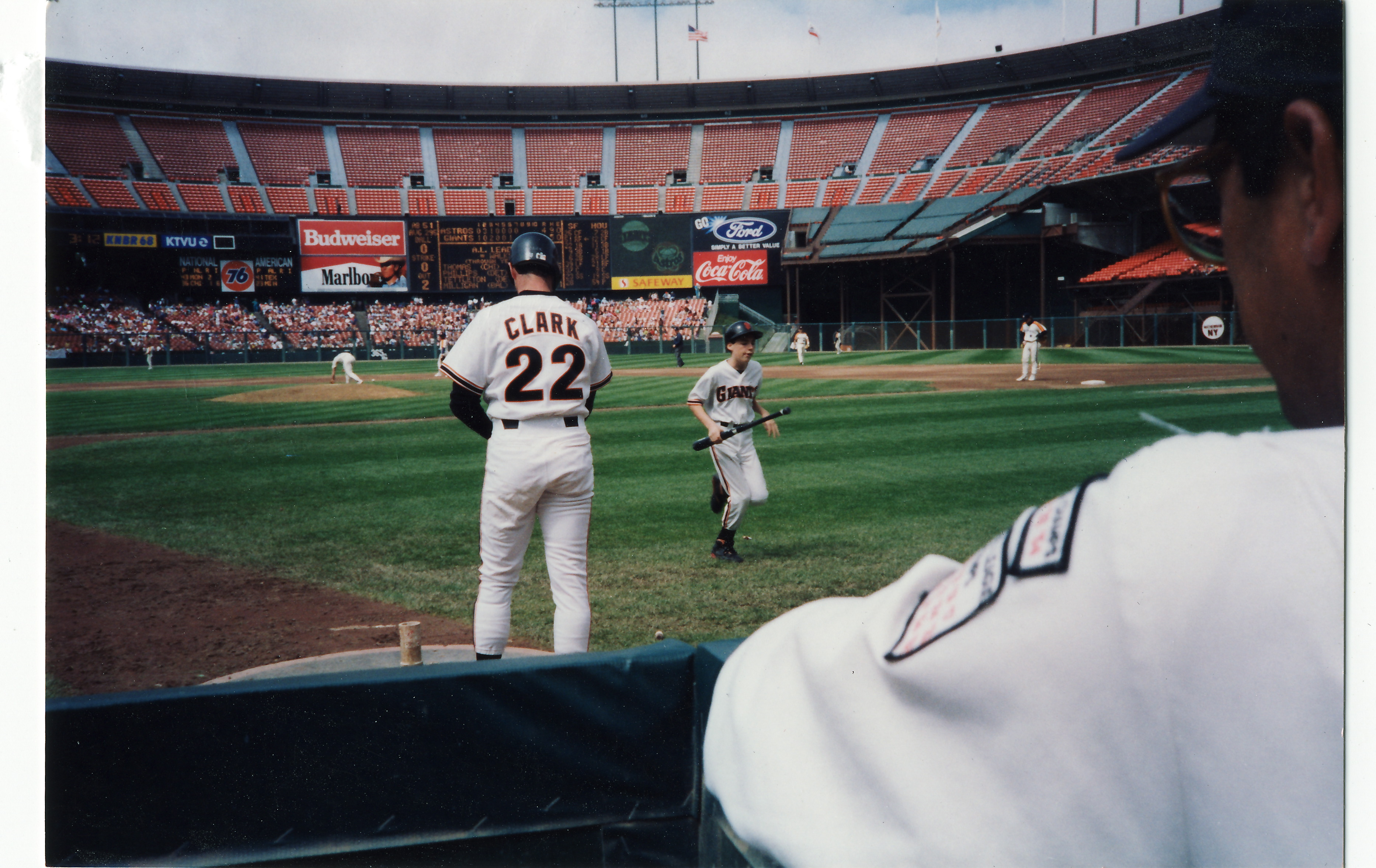 Will Clark preparing to bat during seventh inning of 12 August 1992 game between San Francisco Giants and Houston Astros, at Candlestick Park in San Francisco. Game boxscore